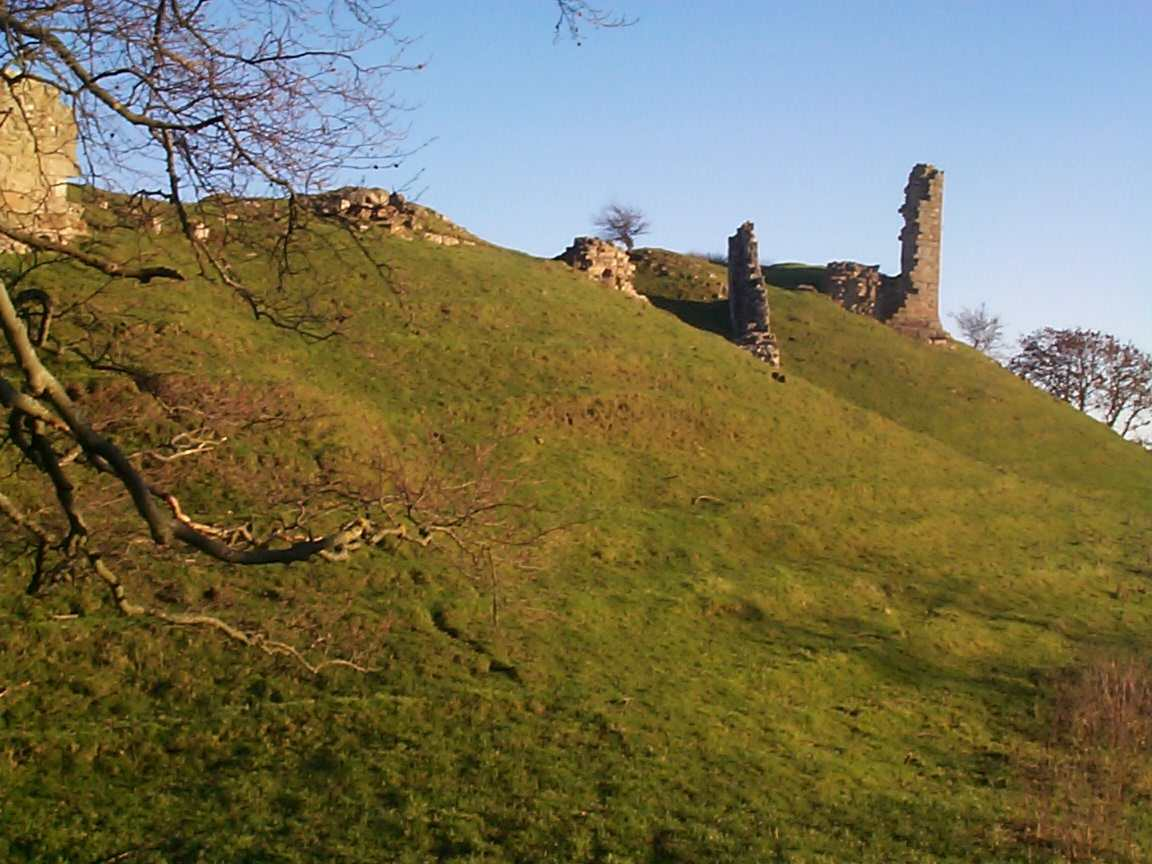 Glenn Smart (glennsmart(at) ) Use the images for whatever you want. That's how the Internet should be - free and for sharing